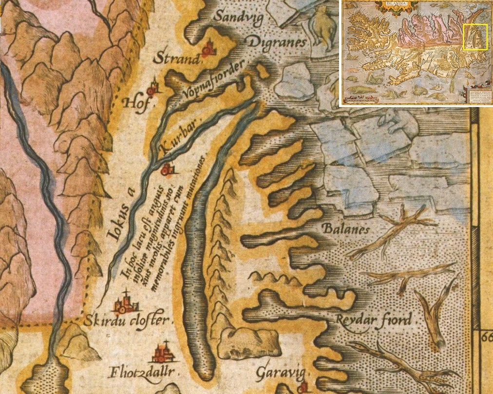 Detail around Lagarflót showing the inscription